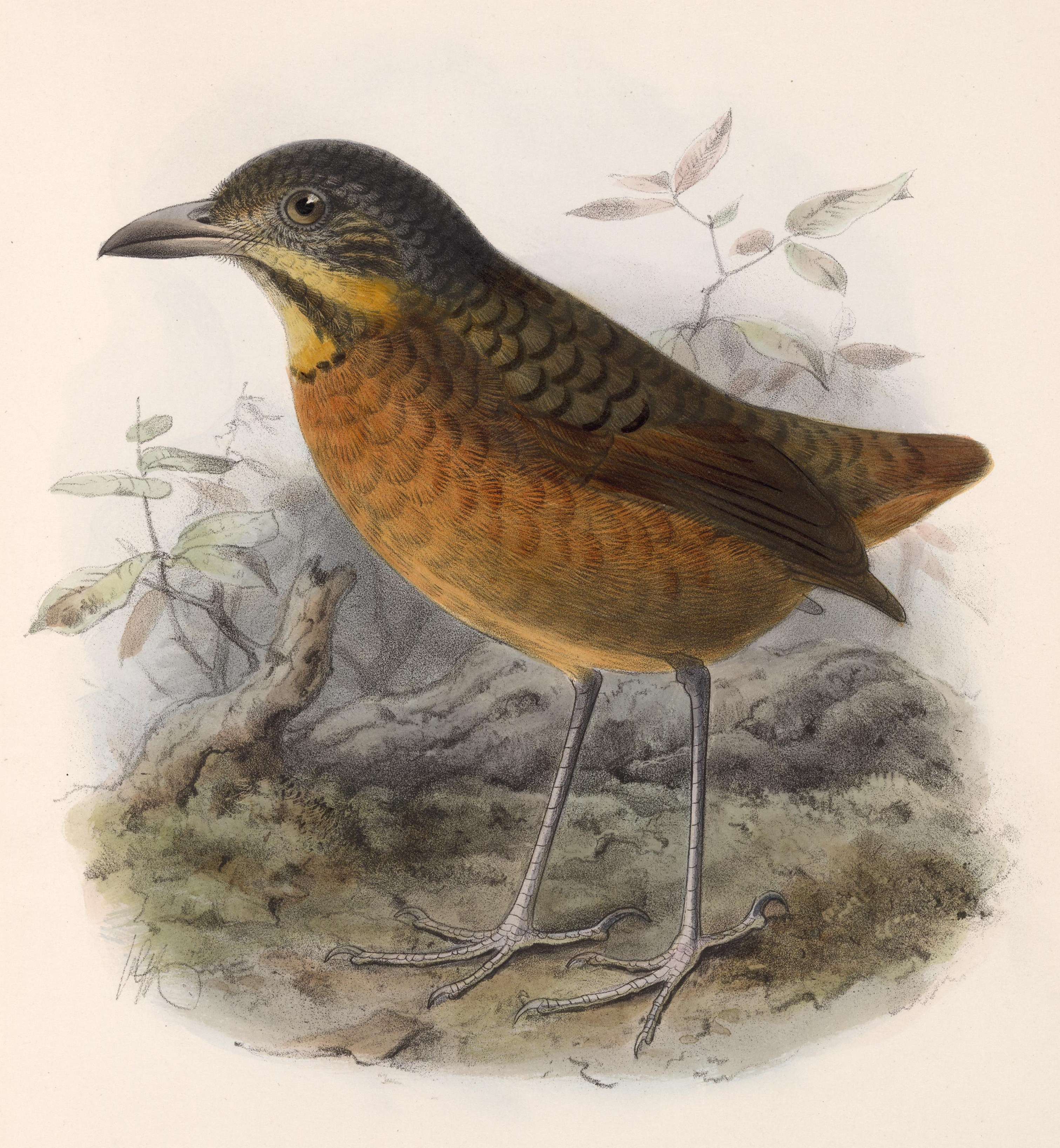 « Grallaria princeps » = Grallaria guatimalensis princeps (Subspecies of Scaled Antpitta)